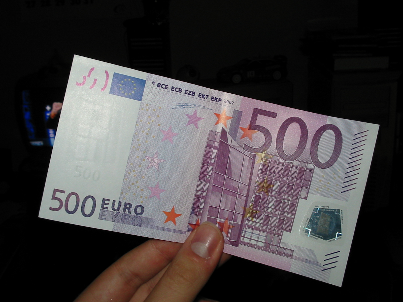 €500 bill